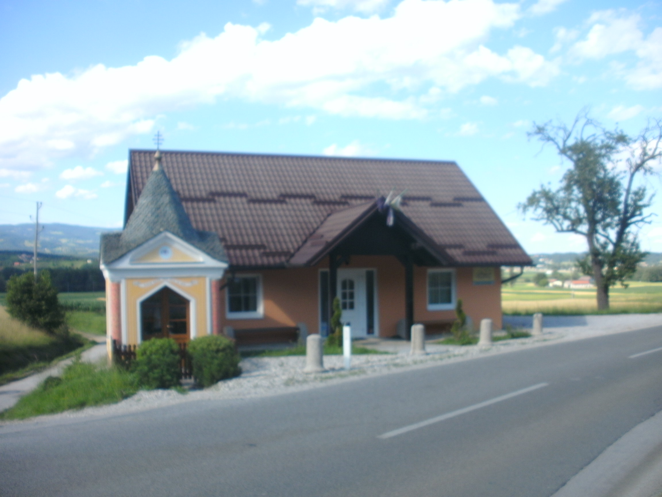 Konjiška vas chapel, Slovenia